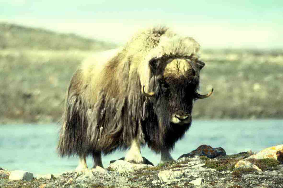 Muskox on Victoria Island, Nunavut Territory, Canada